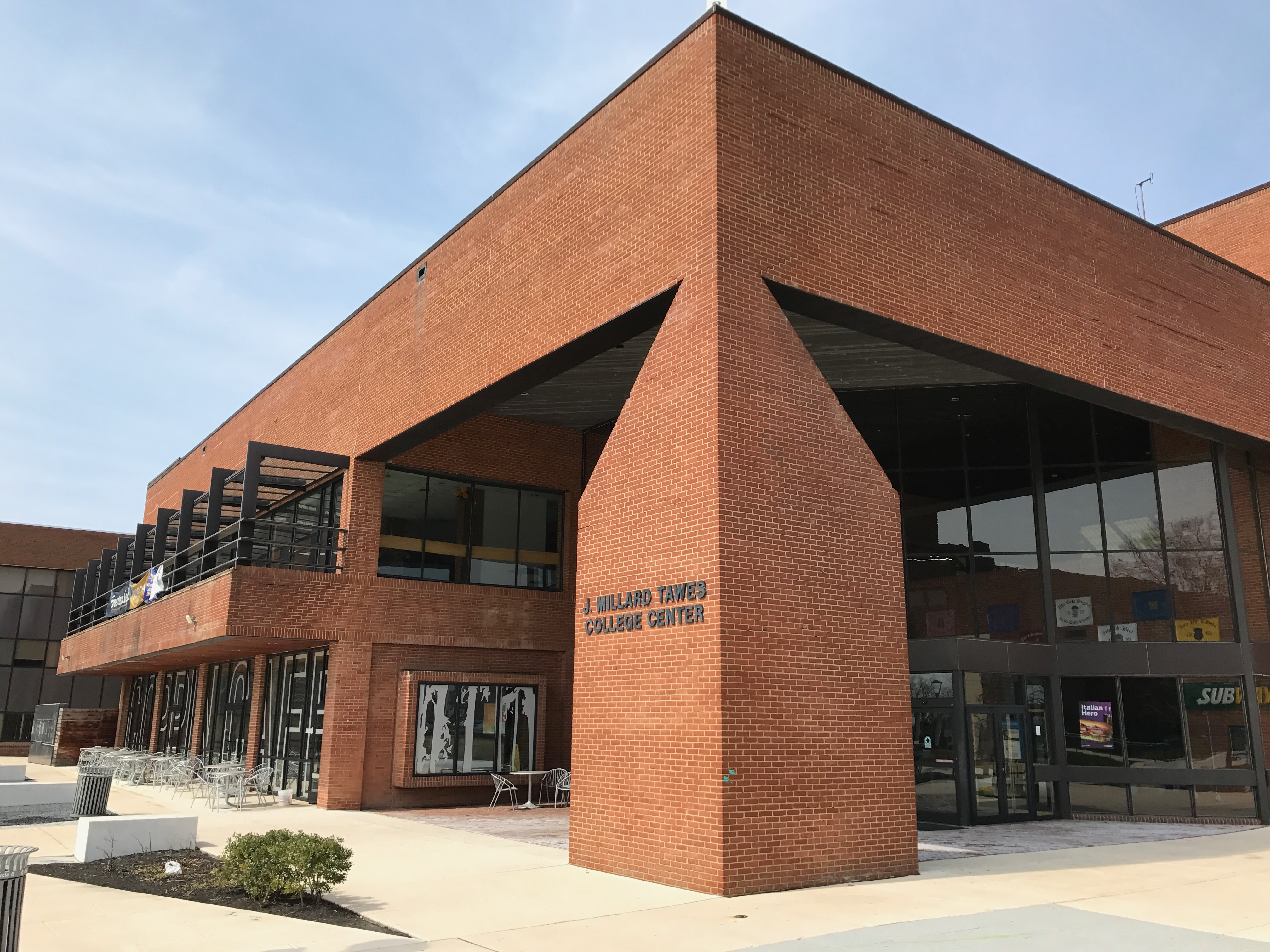 Photograph by Eli Pousson, 2017 March 24.